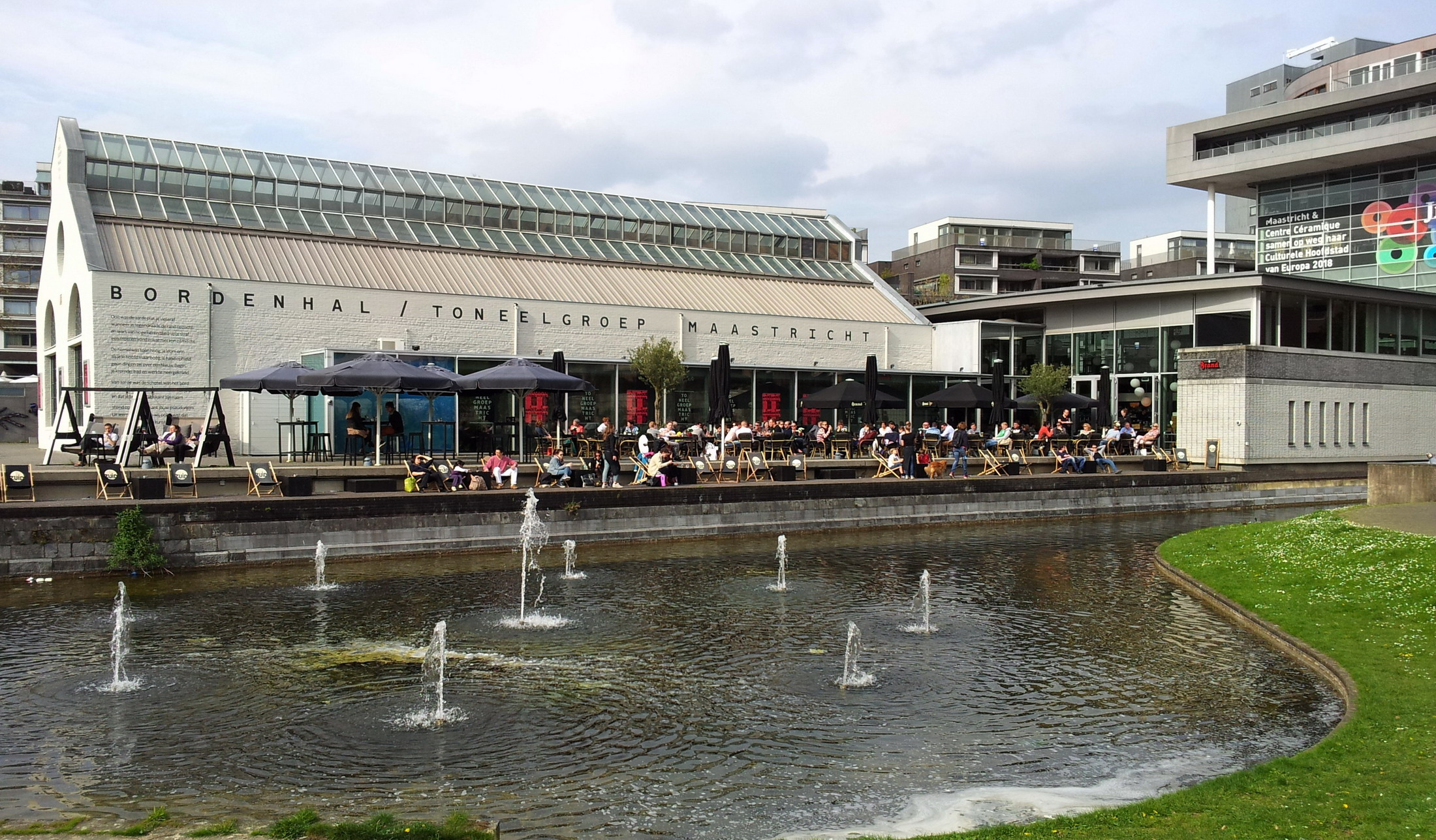 Maastricht, the Netherlands. View towards the North of Charles Eyckpark along the Meuse river in the Céramique neighbourhood. Background: old factory building ("Bordenhal") converted into a theater and café by Jo Coenen. To the right: part of the city library, also designed by Coenen.